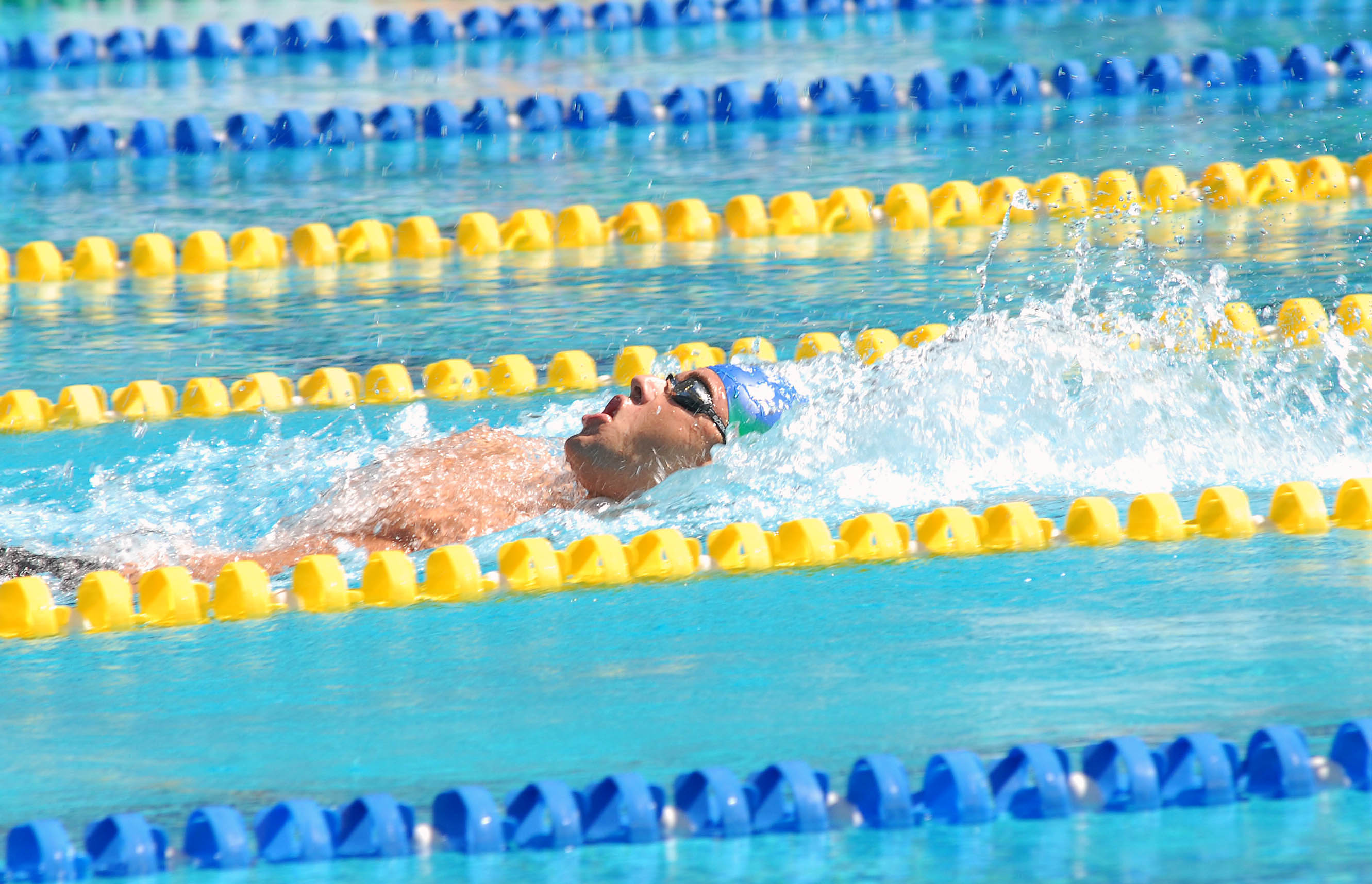 Thiago Pereira during 200m medley final - Rio 2007